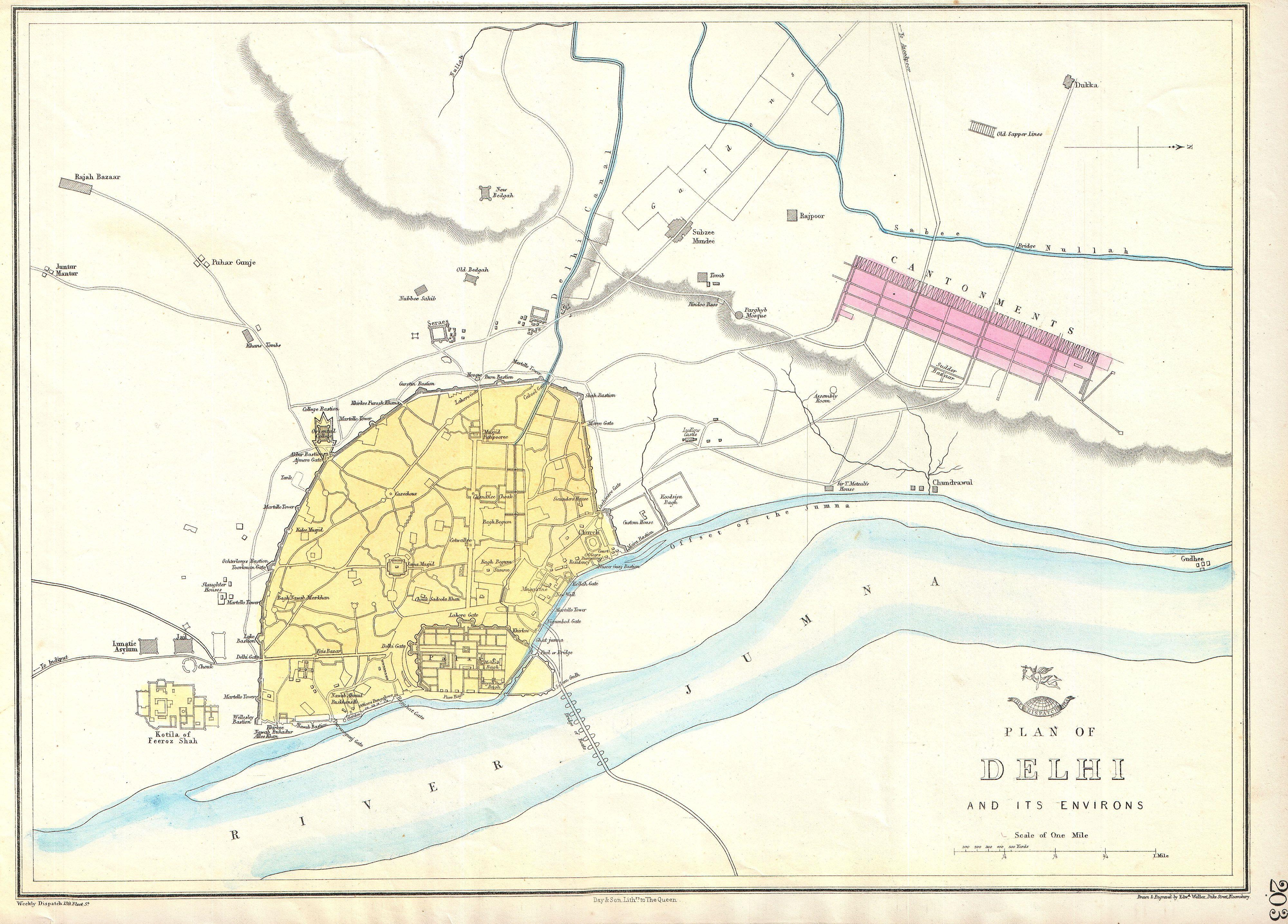 This is a seldom seen map of Delhi, India, dating to 1858, by London cartographer Edward Weller. Depicts the city of Delhi shortly after the suppression of the Indian Mutiny in 1857. Oriented to the west. Shows what is today Old Delhi west of the Jumna River. Depicts the old city walls, palaces, gates, bazaars, mosques, temples, grave sites and tombs, streets and municipal buildings. Shows the pontoon bridge crossing the Jumna as well as the cantonments to the north of the city. Originally part of the Weekly Dispatch Atlas , but issued only in the 1863 production of the complete Atlas .